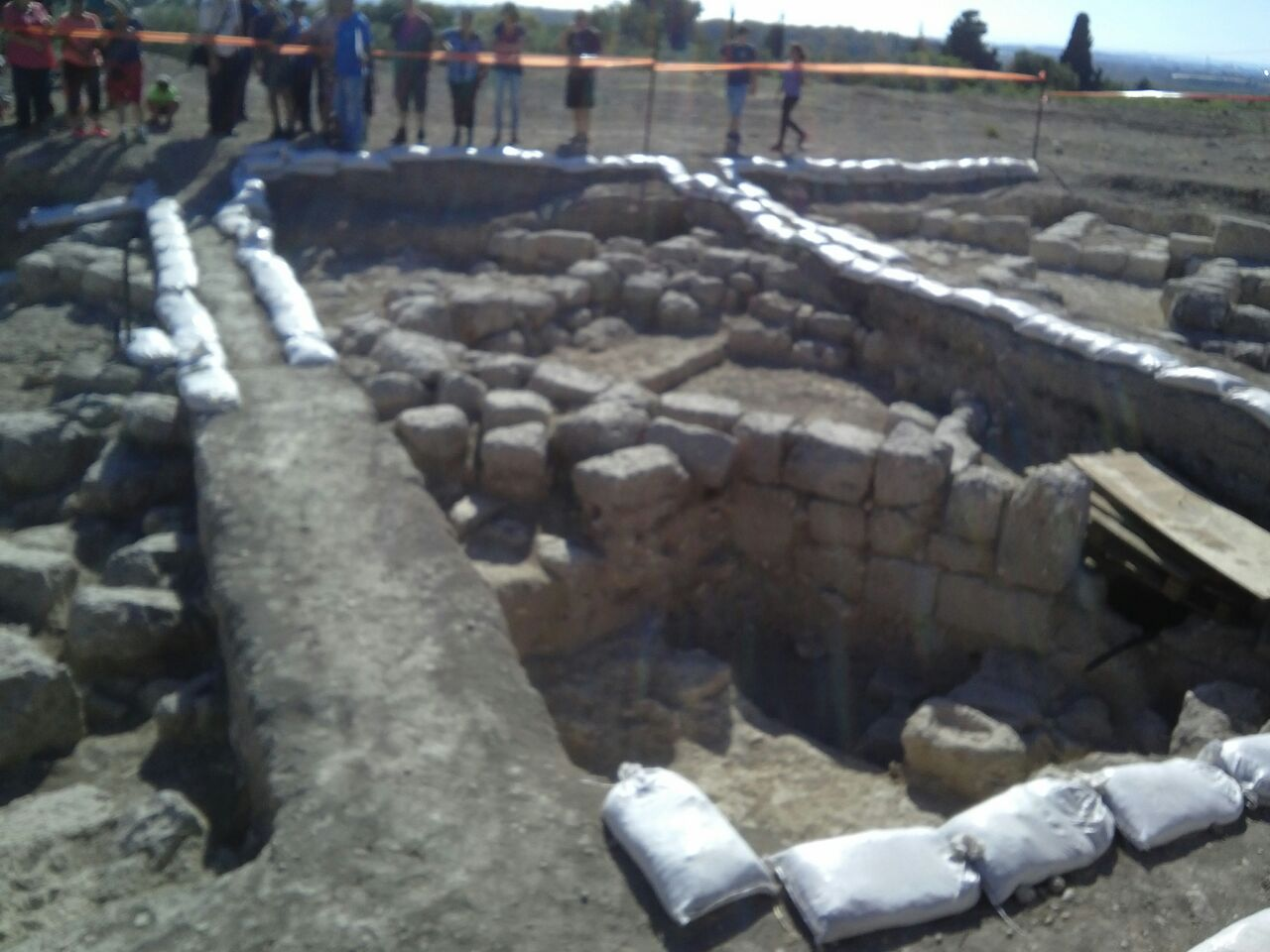 Archaeological excavations at Moshav Amka Day Tour May 2015